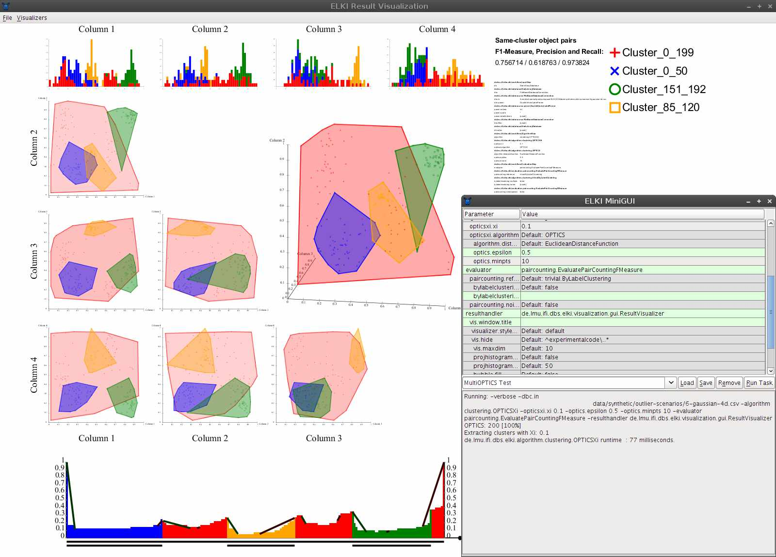 Screenshot of ELKI version 0.4. On the bottom right the MiniGUI parameterization tool is shown, in the background the visualizations of the clusters detected by an OPTICS run.